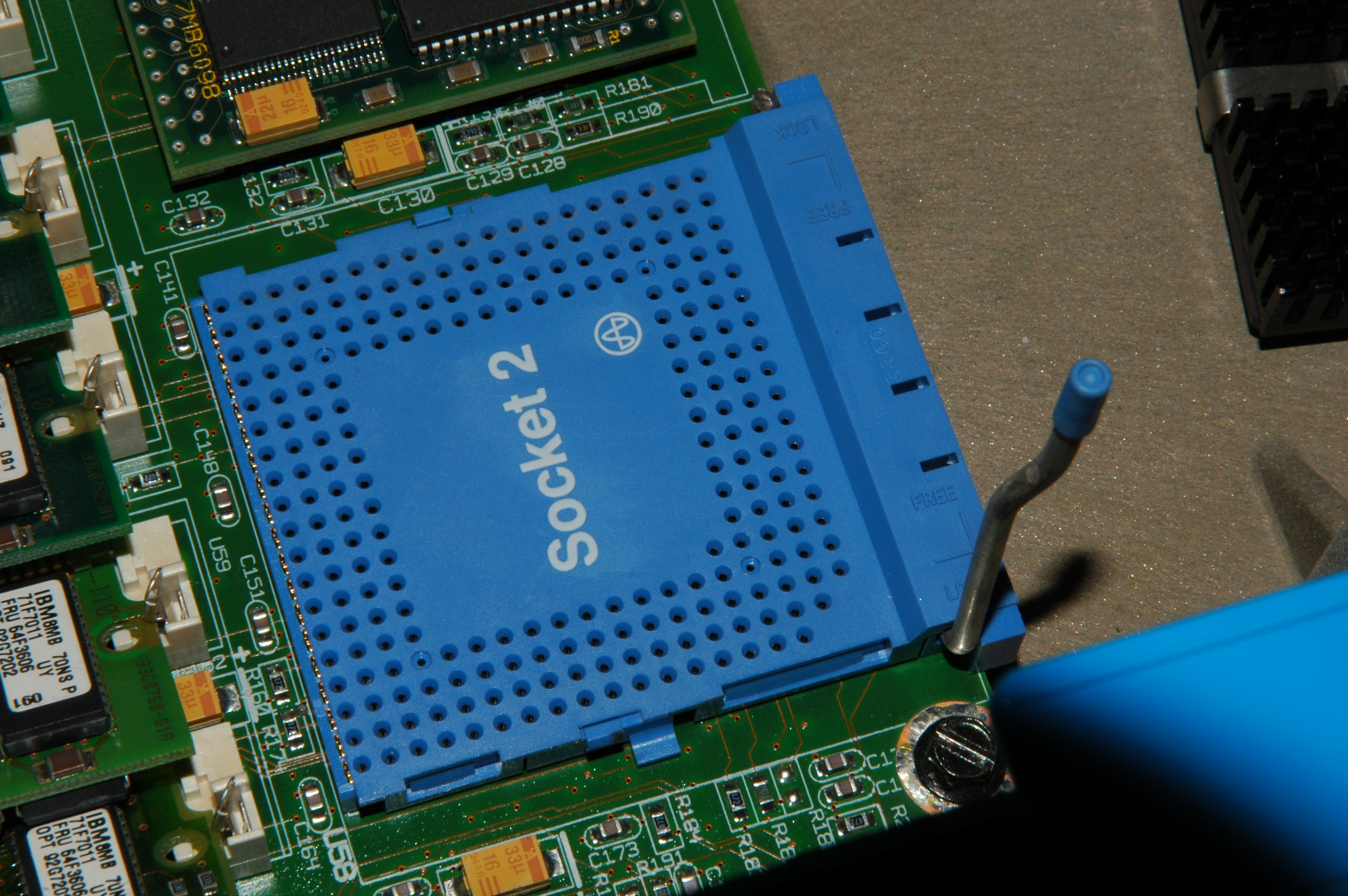 Intel Socket 2 ZIF CPU socket. This is from a Reply Planar which replaced the original 12Mhz 286 IBM PS/2 60 Planar. It's using an Intel 486DX 33Mhz CPU.